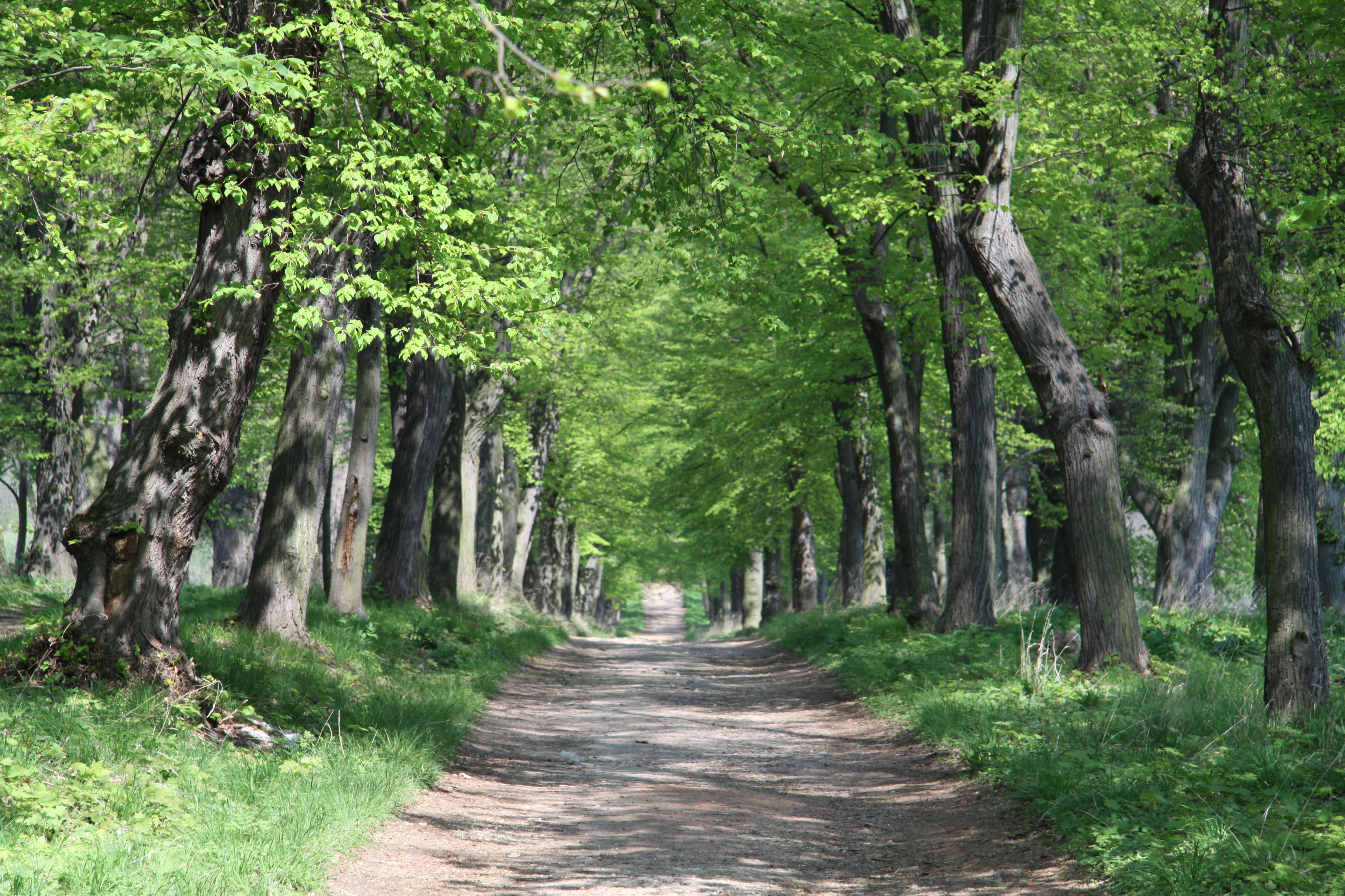 Libějovická alej near Libějovice, České Budějovice District, Czech Republic - Google Maps - Google Earth